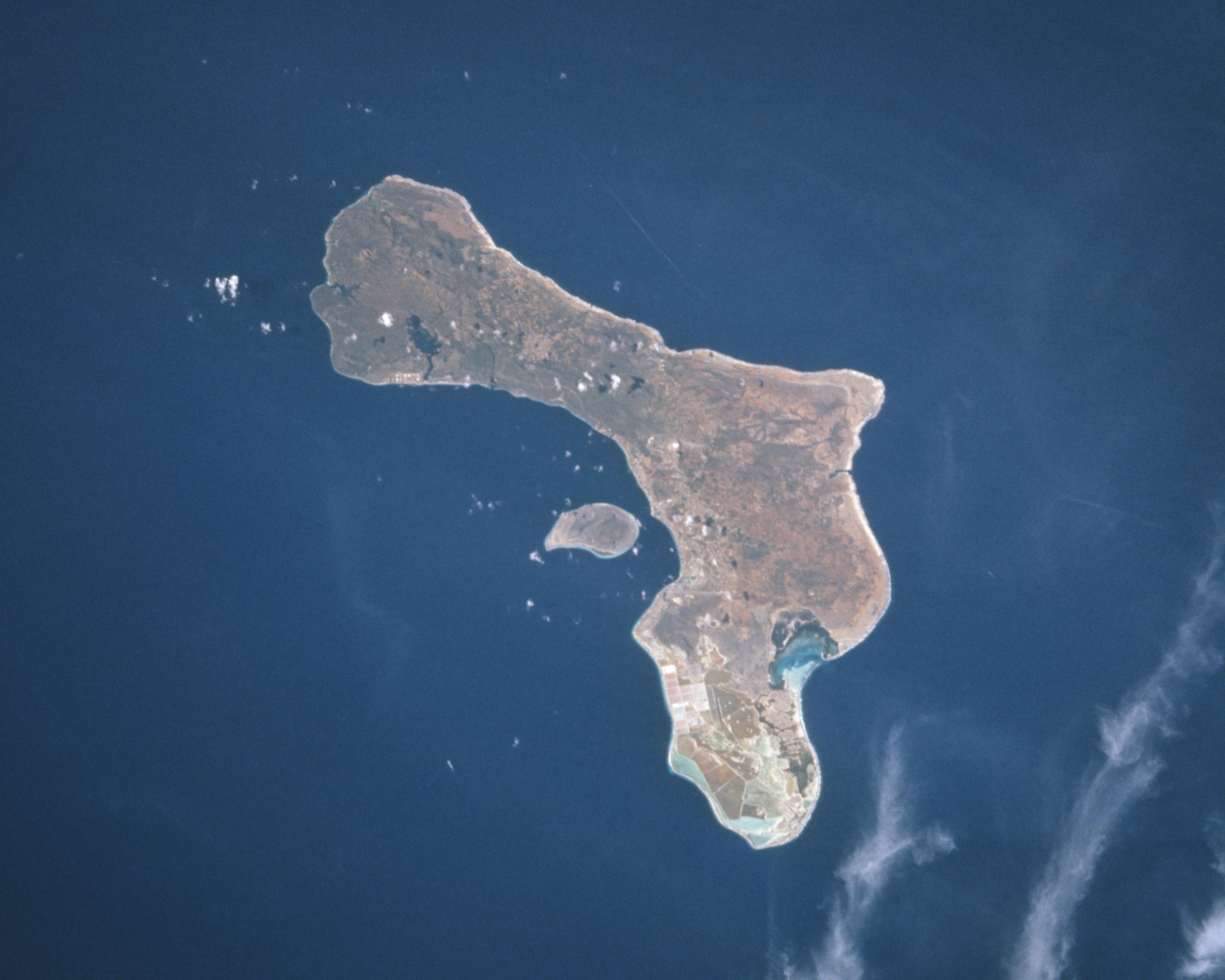 Bonaire Island - Image rotated and cropped so that north is at the top. Modified from 100px| Bonaire_island.jpg Link to NASA website